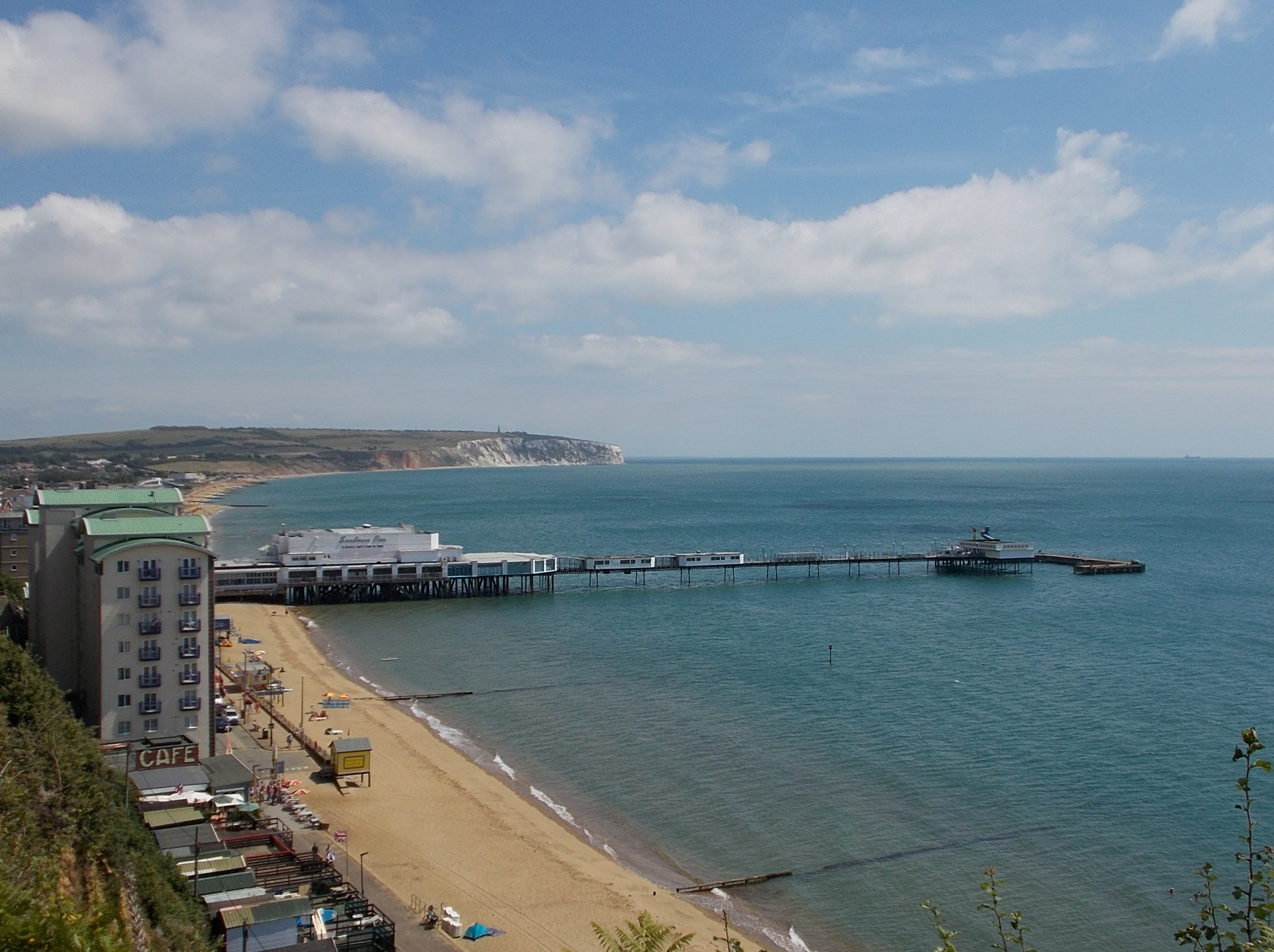 Sandown Pier, with Culver Cliff behind, Isle of Wight, UK.